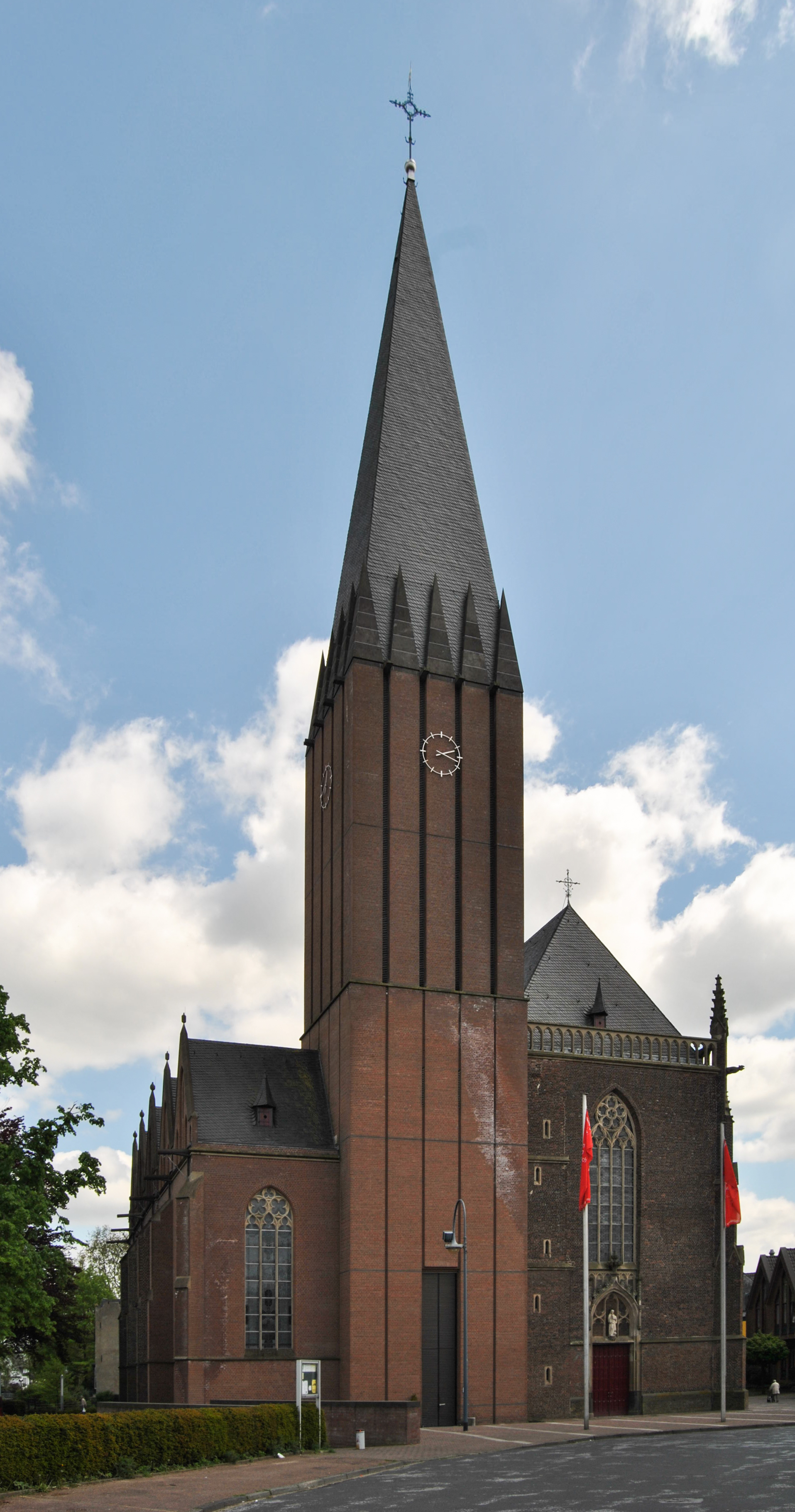 Front view (west side) of the Catholic Saint Mary Magdalene Church in Goch, Germany This image shows a heritage building in Germany, located in the North Rhine-Westphalian city Goch (no. 5). This photograph was taken with a Nikon D3000